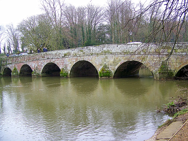 Bridge over the River Stour, Blandford Forum Blandford Forum developed as a market town in the eastern part of Dorset during the later medieval period. The main reason for its development was that the main roads from Salisbury to Dorchester and from Poole to Shaftesbury meet here to cross the River Stour.